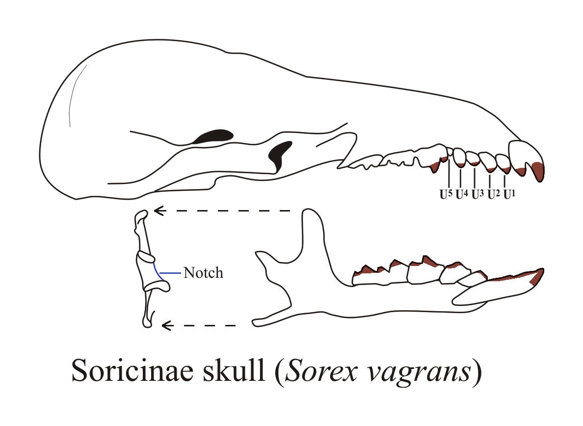 Skull of Sorex vagrans, according to Fauna of British Columbia